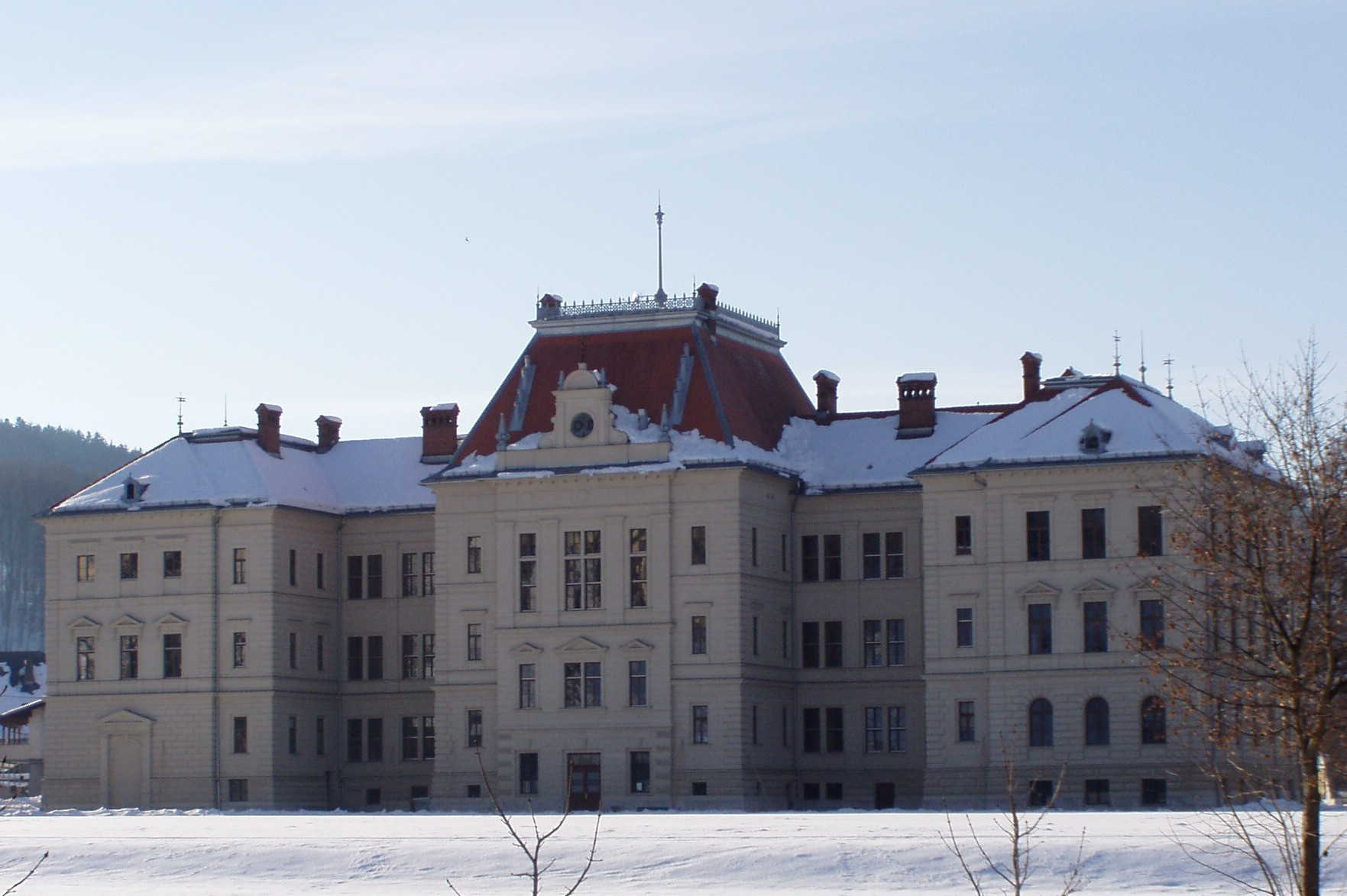 Stiftsgymnasium St. Paul, Carinthia, View from South